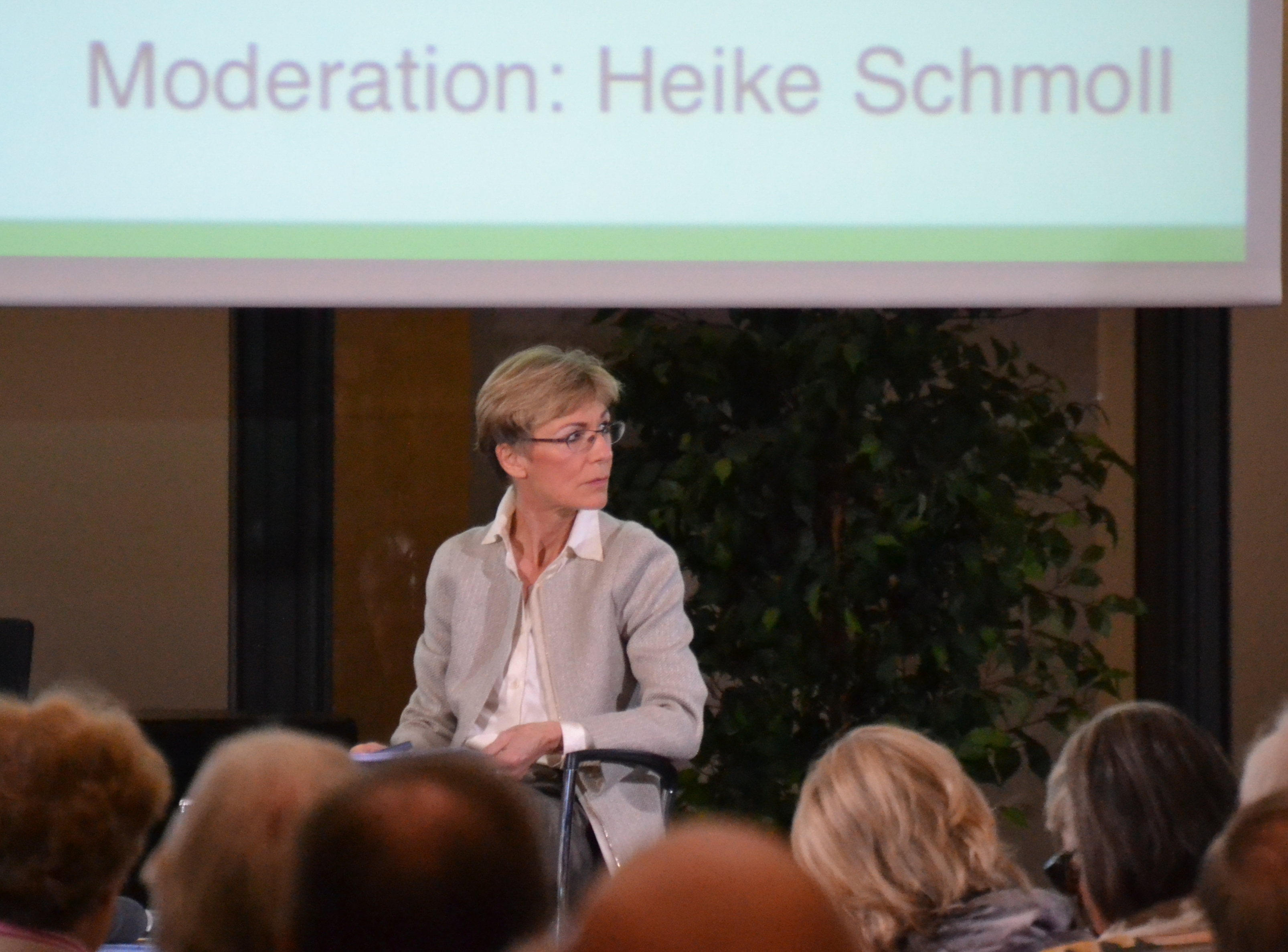 Academiesday 2015 at the Berlin-Brandenburg Academy of Science in Berlin; Theme: "Old world today: Perspectives and threats". Image:Podium discussion 'Bewahren vor Vergessen', host Heike Schmoll, Journalist of the Frankfurter Allgemeine Zeitung.